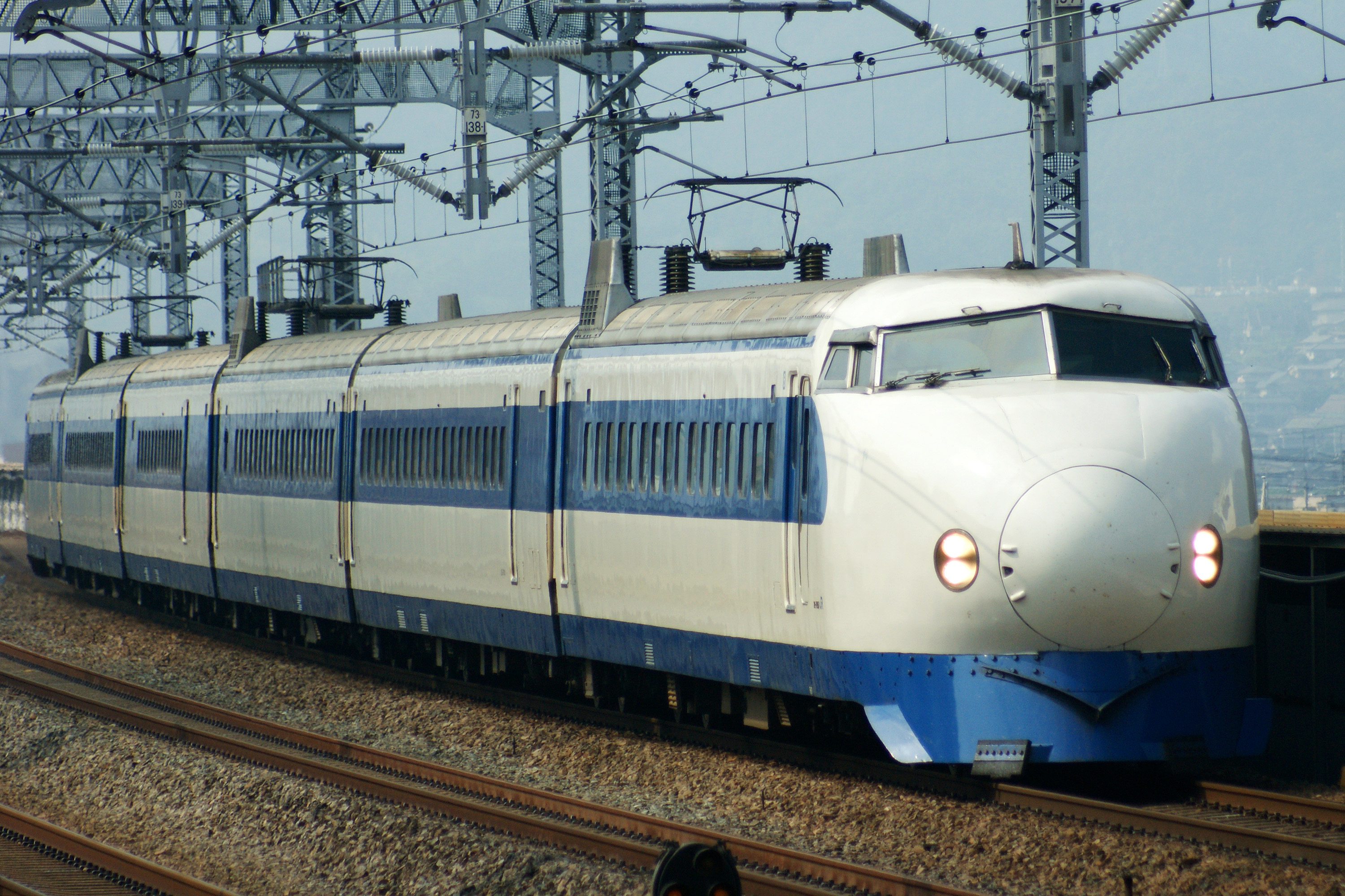 JR West 0 series shinkansen set repainted into its original livery at Fukuyama Station on the Sanyo Shinkansen